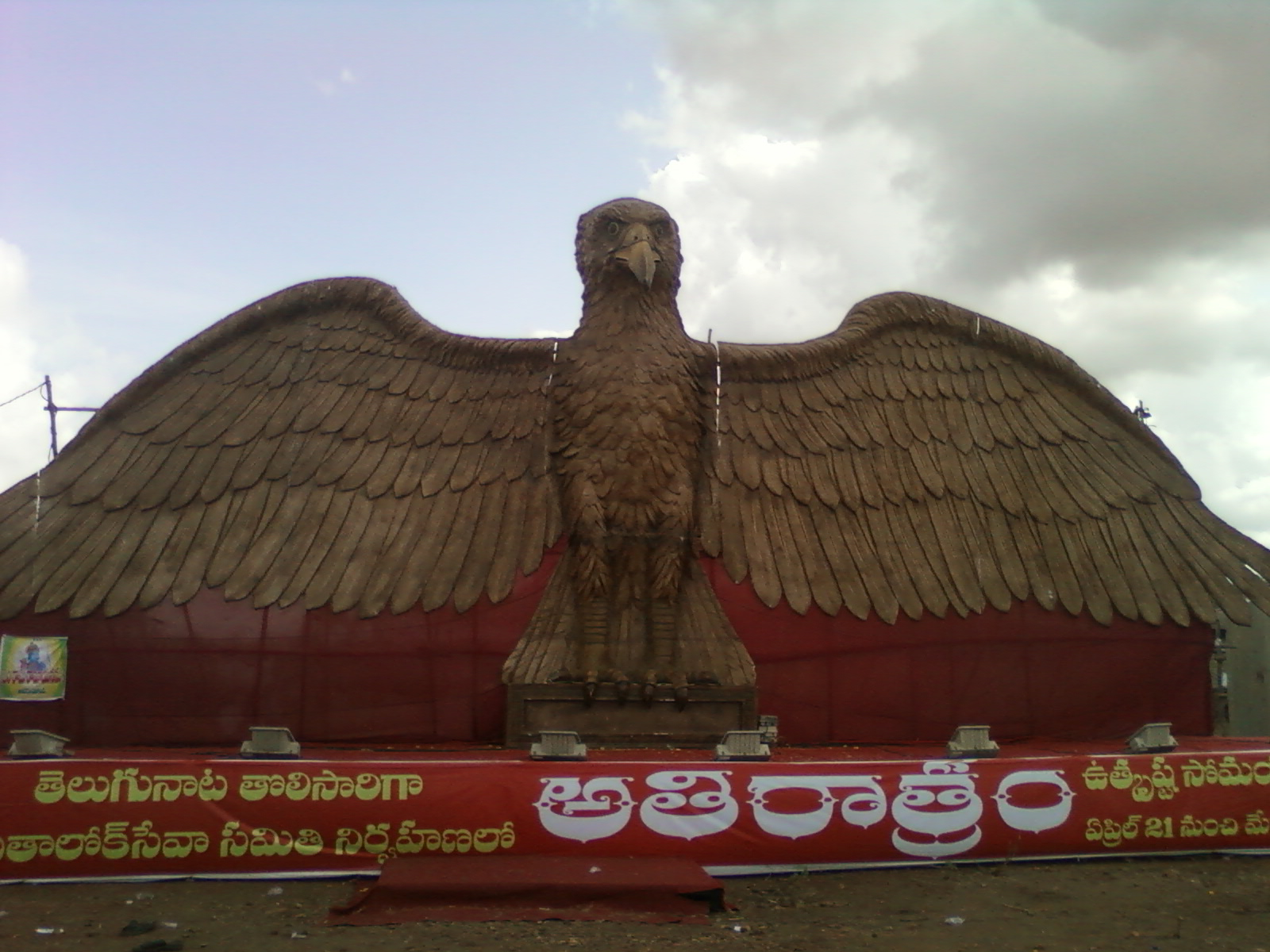 Atiraatra Maha Yaagam at Yetapaka, Khammam District, Andhra Pradesh